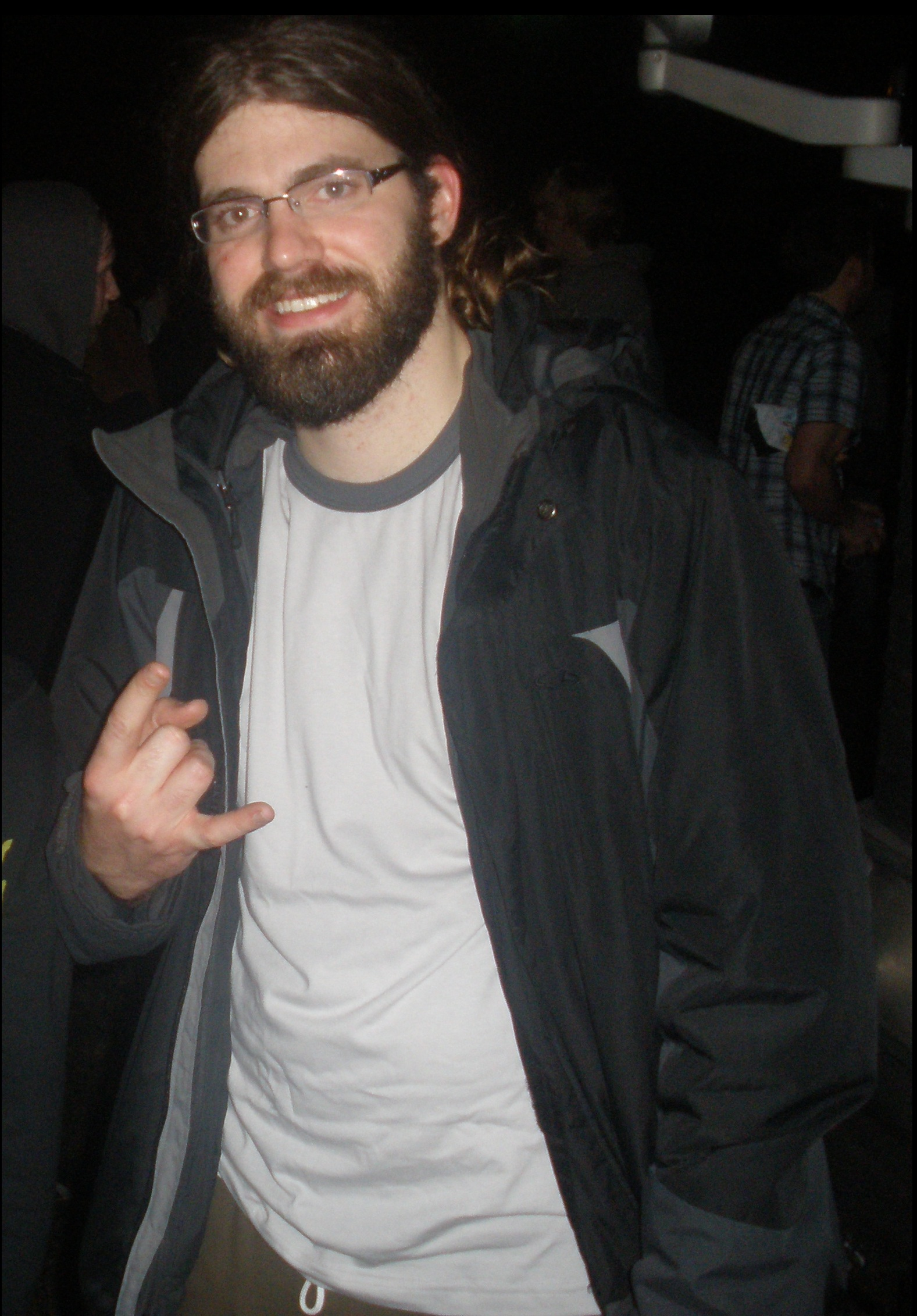 Paul Waggoner after a show.